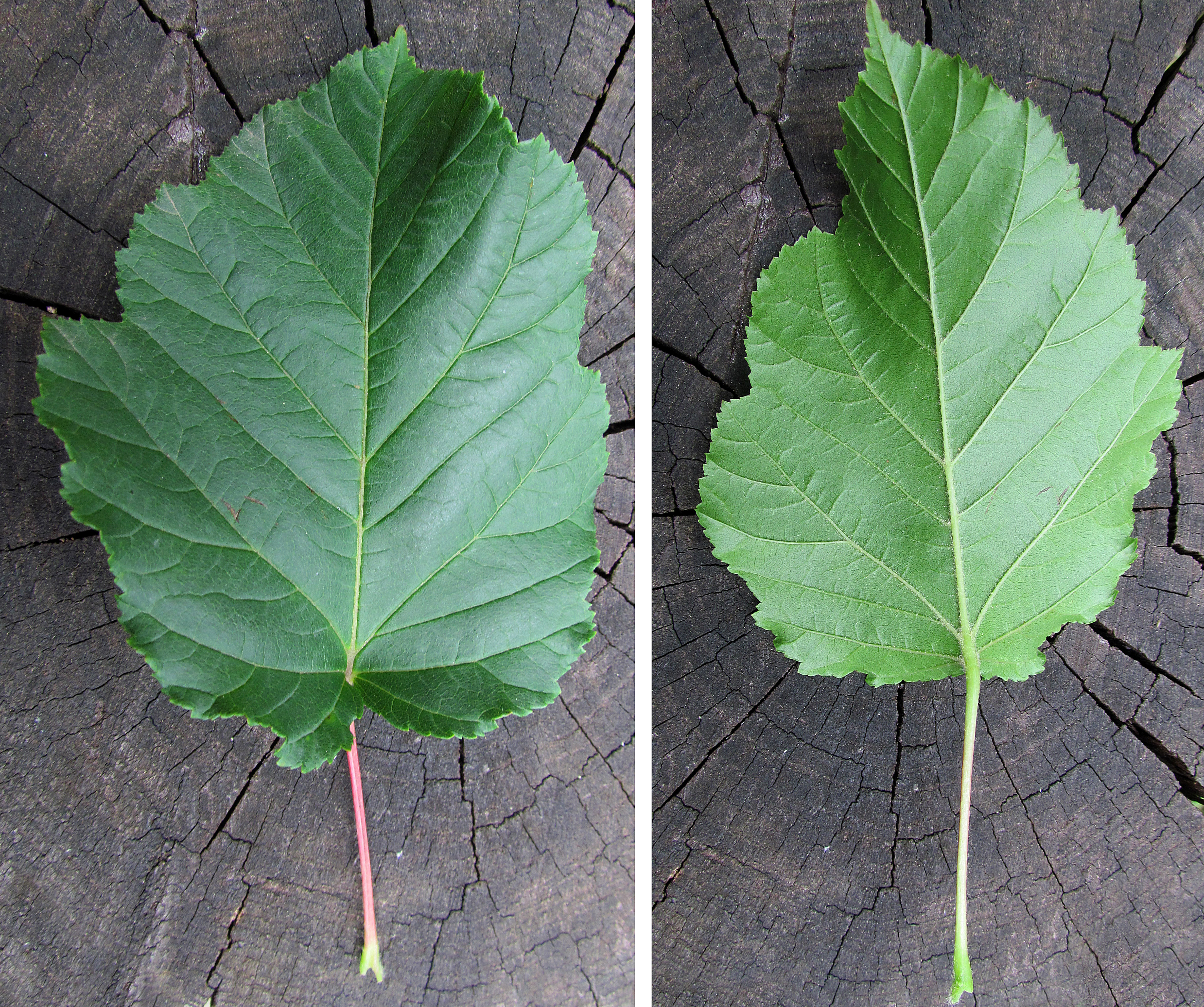 Acer tataricum ad and abaxial leaf